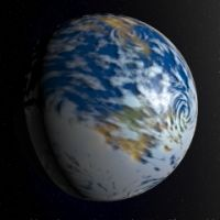 This is a sample constructed-world as seen from space.